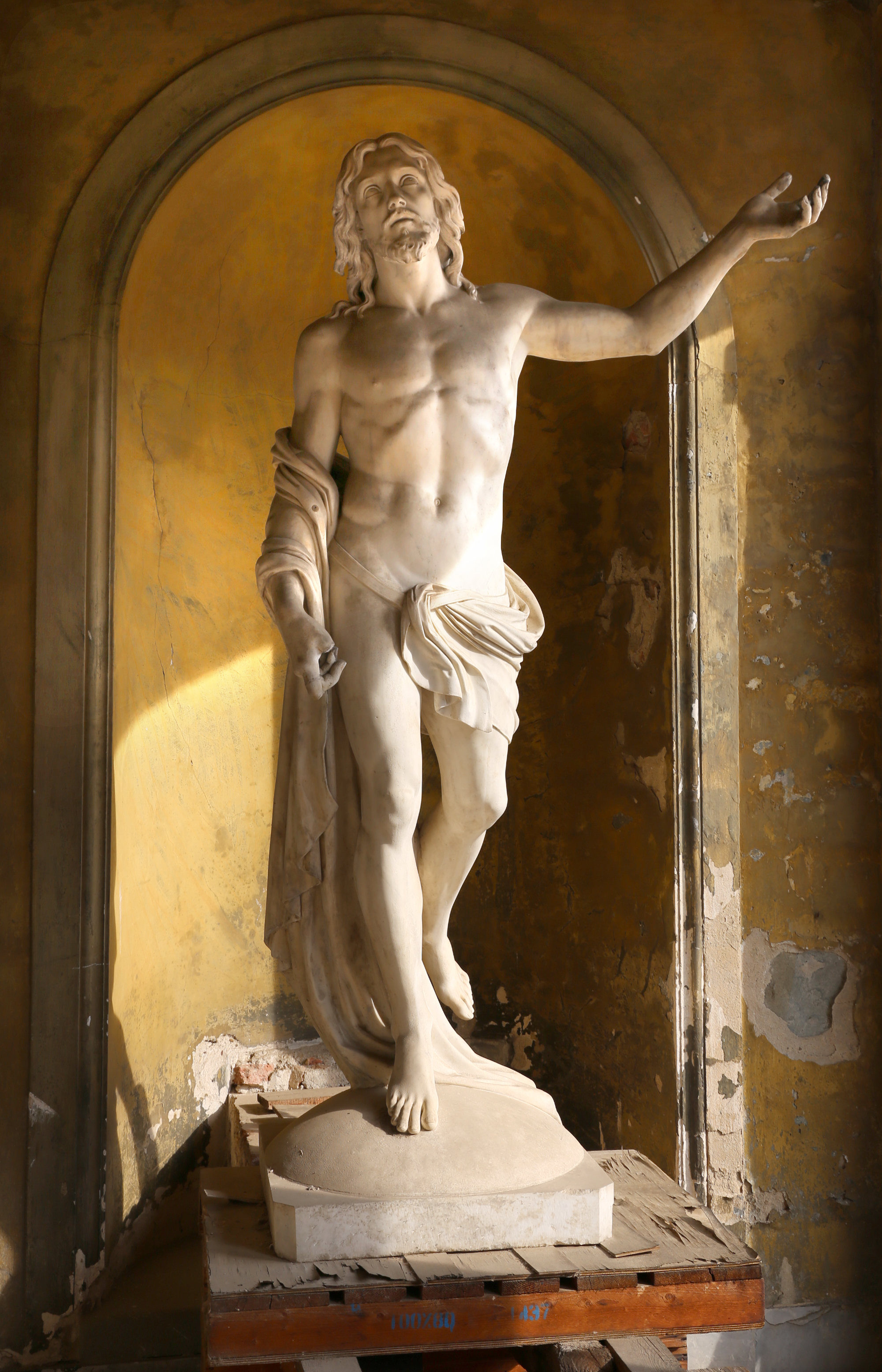 Cimitero della Misericordia (Florence)